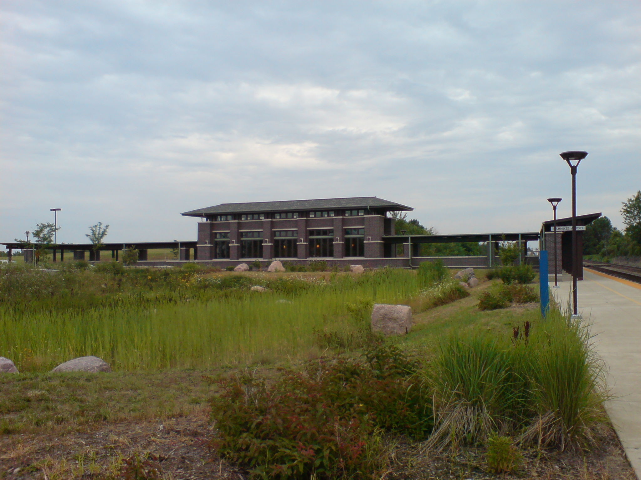 The Milwaukee Airport Rail Station photographed from north of the station.